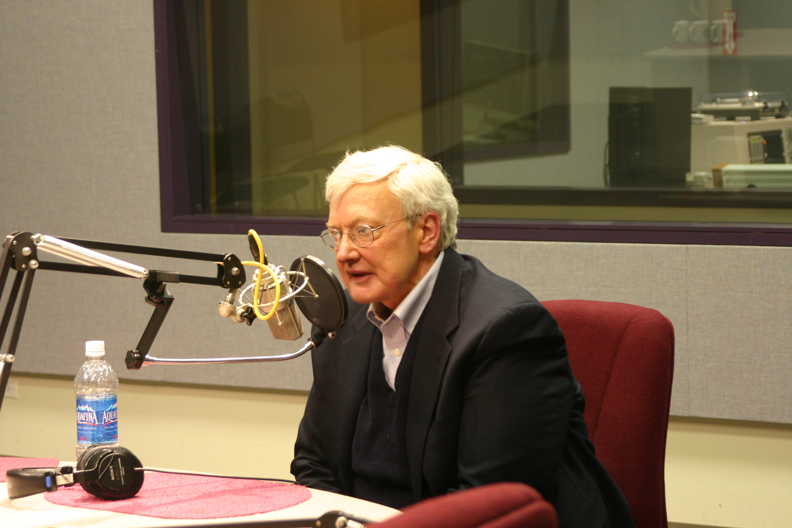 Roger Ebert, the film critic, giving an interview at a Chicago public radio station, on Sound Opinions program in 2006